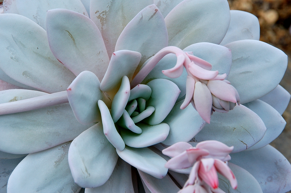 Echeveria lavi, Botanical Garden Berlin, Germany